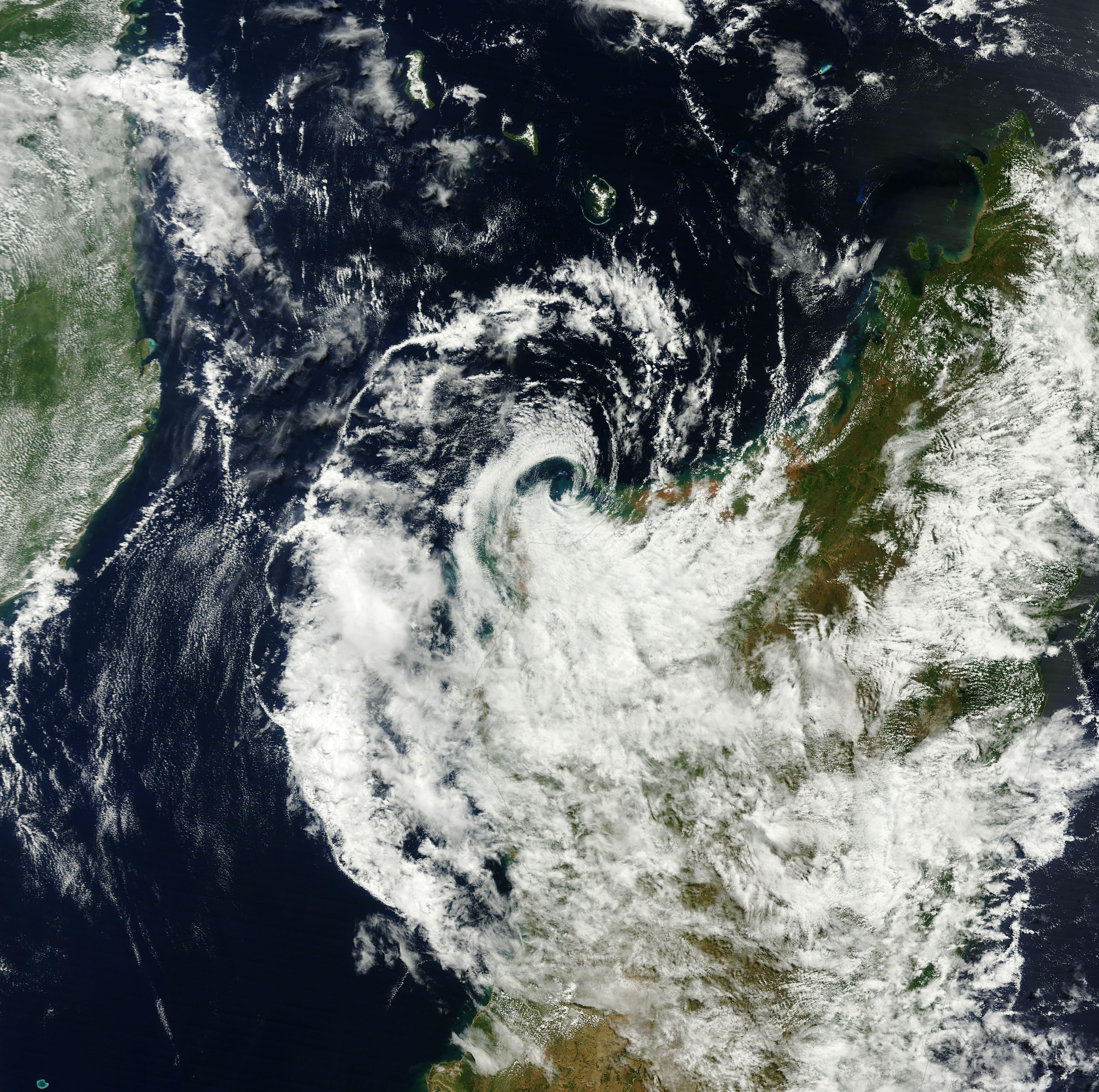 Cyclone Hellen weakening over the Mozambique Channel